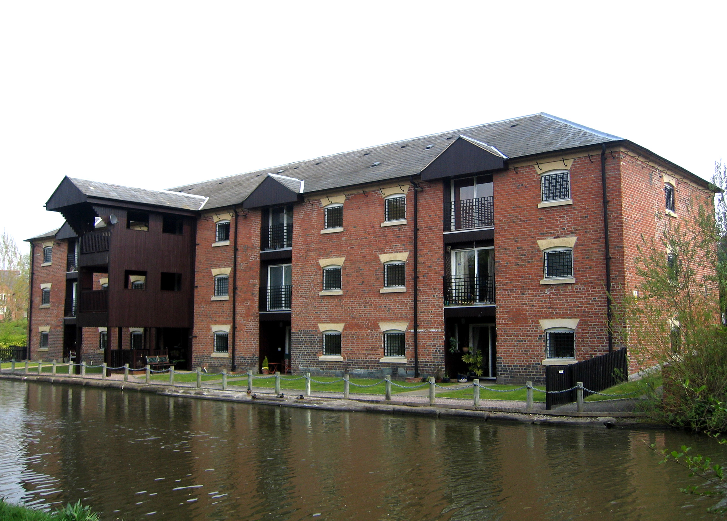 Former warehouse on the Bridgewater canal at Preston Brook, Cheshire.